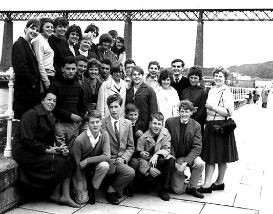 A picture of the participants and leaders of the first CISV Interchange to be held between Great Britain and Germany in 1962